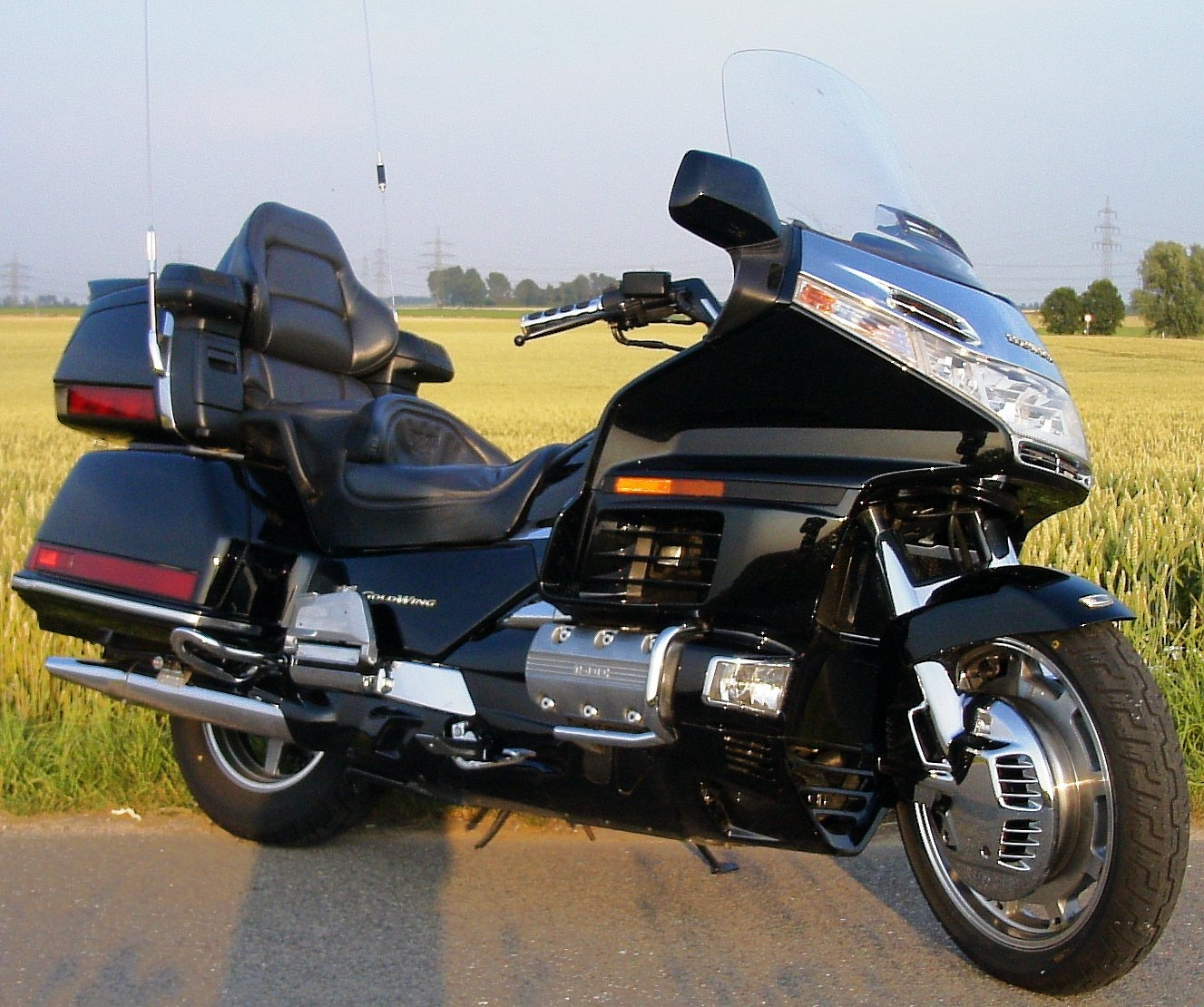 Honda SC22, Goldwing GL 1500 SE-US, 1998, wingo, dingwing